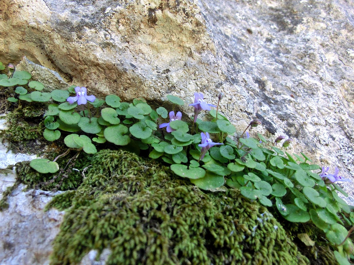 Cymbalaria aequitriloba. Mallorca, between Es Pixarells and Lluc, in rock fissure.